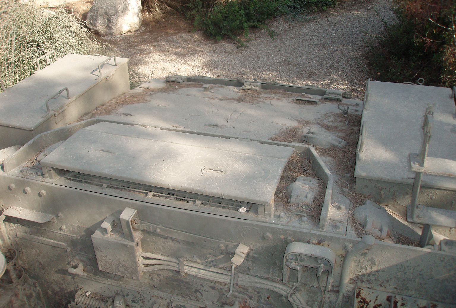 105mm Gun Motor Carriage M7 "Priest" in Beyt ha-Totchan, Zichron Yaakov, Israel.